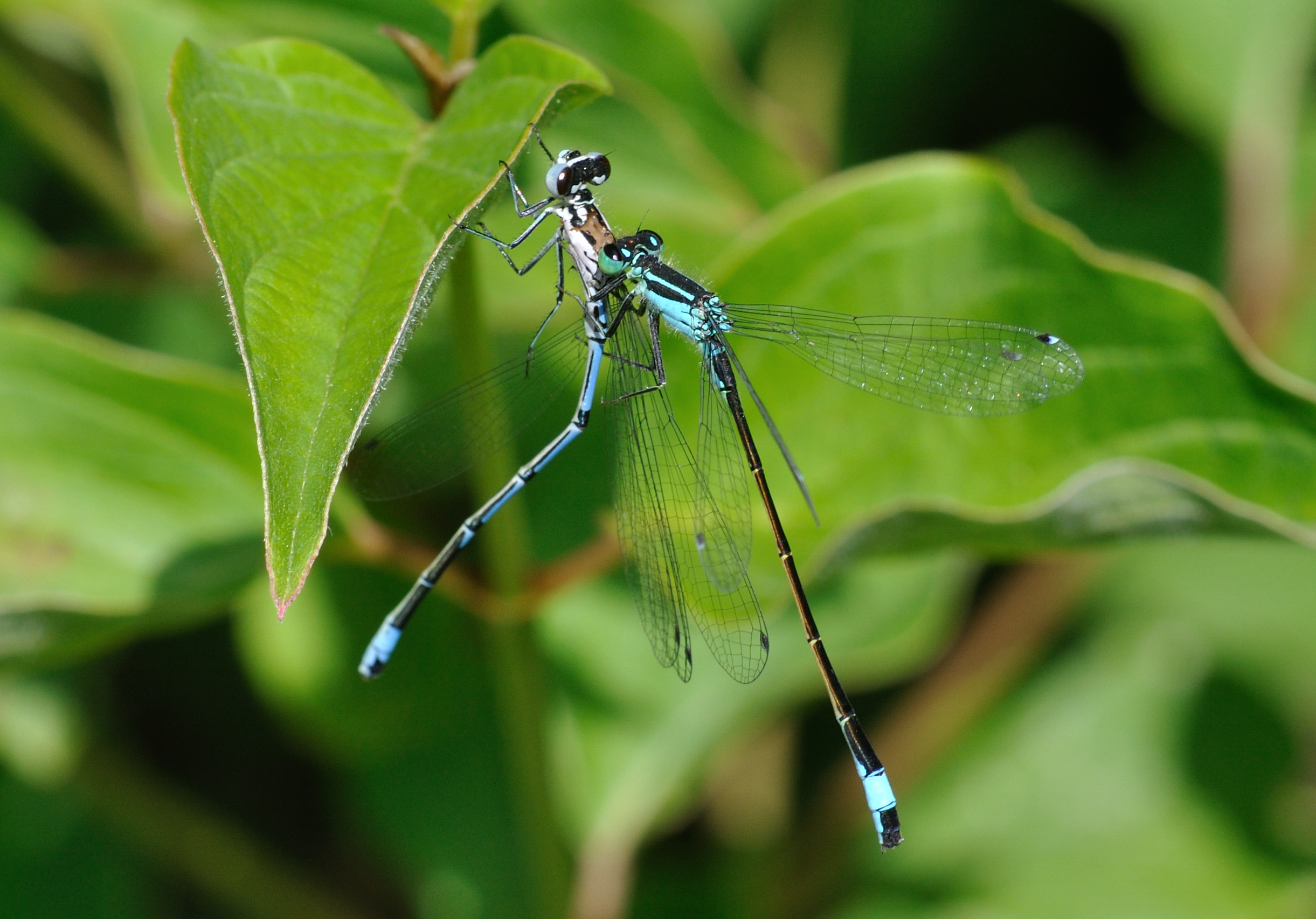 A Blue-tailed Damselfly (Ischnura elegans) eats from an Azure Damselfly (Coenagrion puella) near the old Airstrip, Frankfurt, Germany.